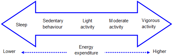 Intensity of activity on a continuum from sedentary behavior through to vigorous activity intensity.